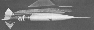 TDU-12/B target rocket on launch rail.